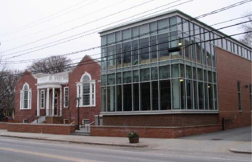 Rochambeau Library. Providence, Rhode Island.